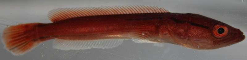 Fry of giant snakehead. Approximately 2cm long, age estimated to be about two weeks.